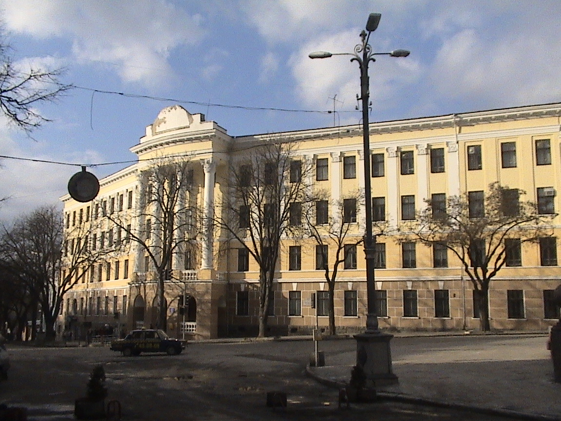 View of School #4 in Ternopil